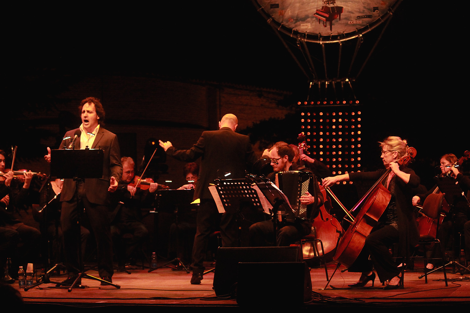 Omar Hasan on the 8th of august of 2013 performing with Café Tango and the Chamber Orchestra of Toulouse at Raymond IV gardens, in Toulouse